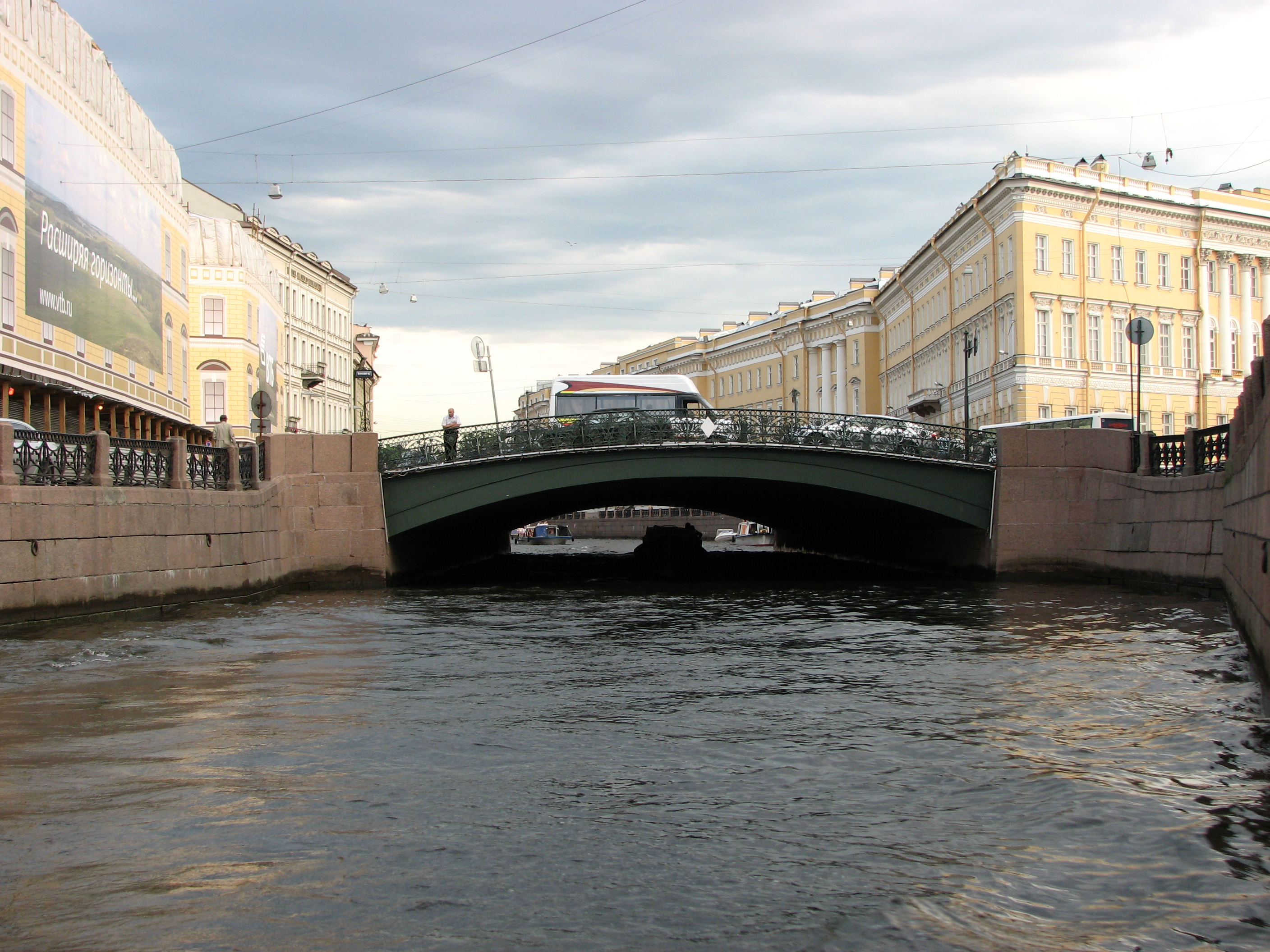 Saint Petersburg. Zelyoniy (Green) bridge across the Moika river.